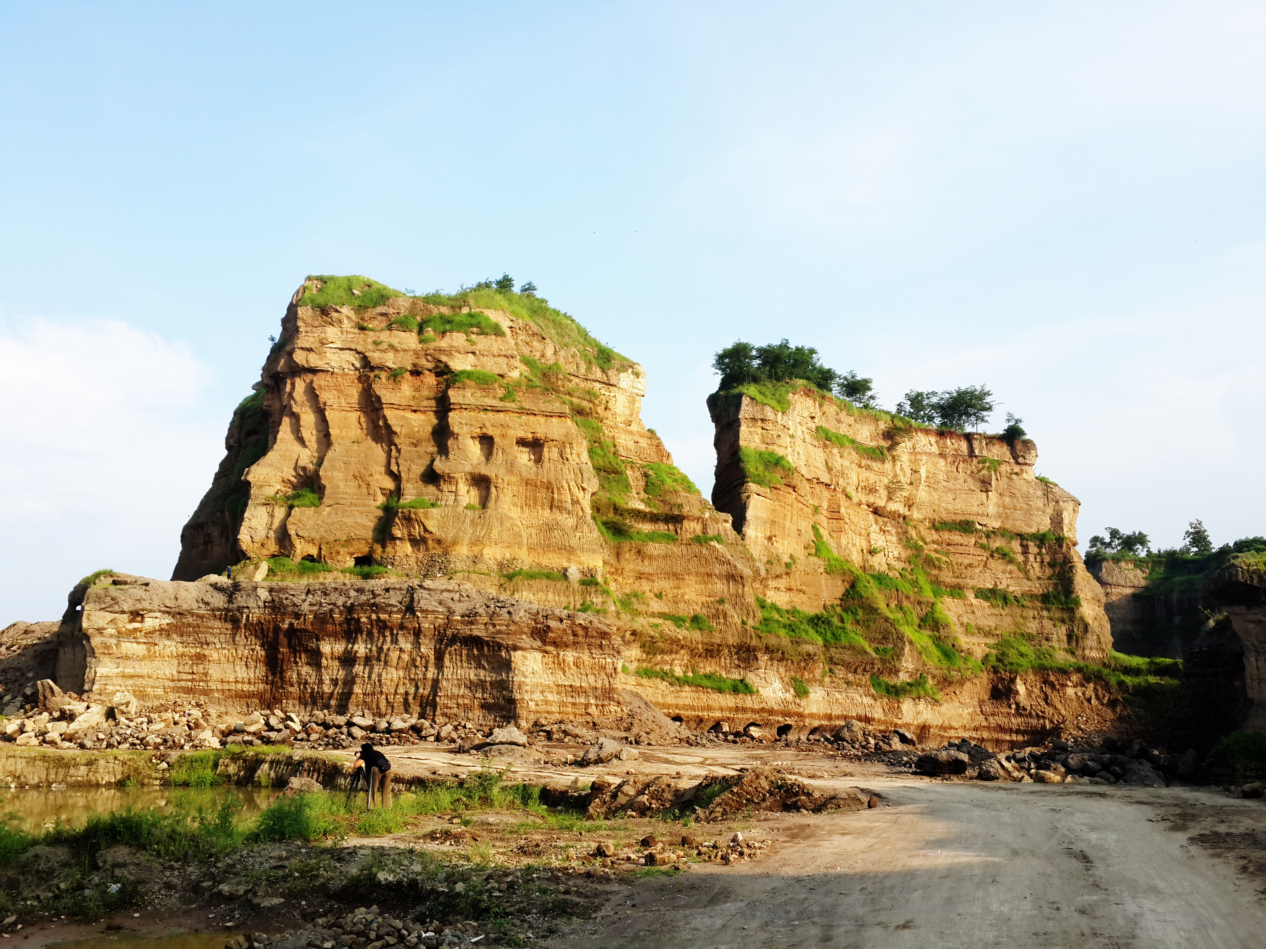 Brown Canyon in Semarang, Indonesia